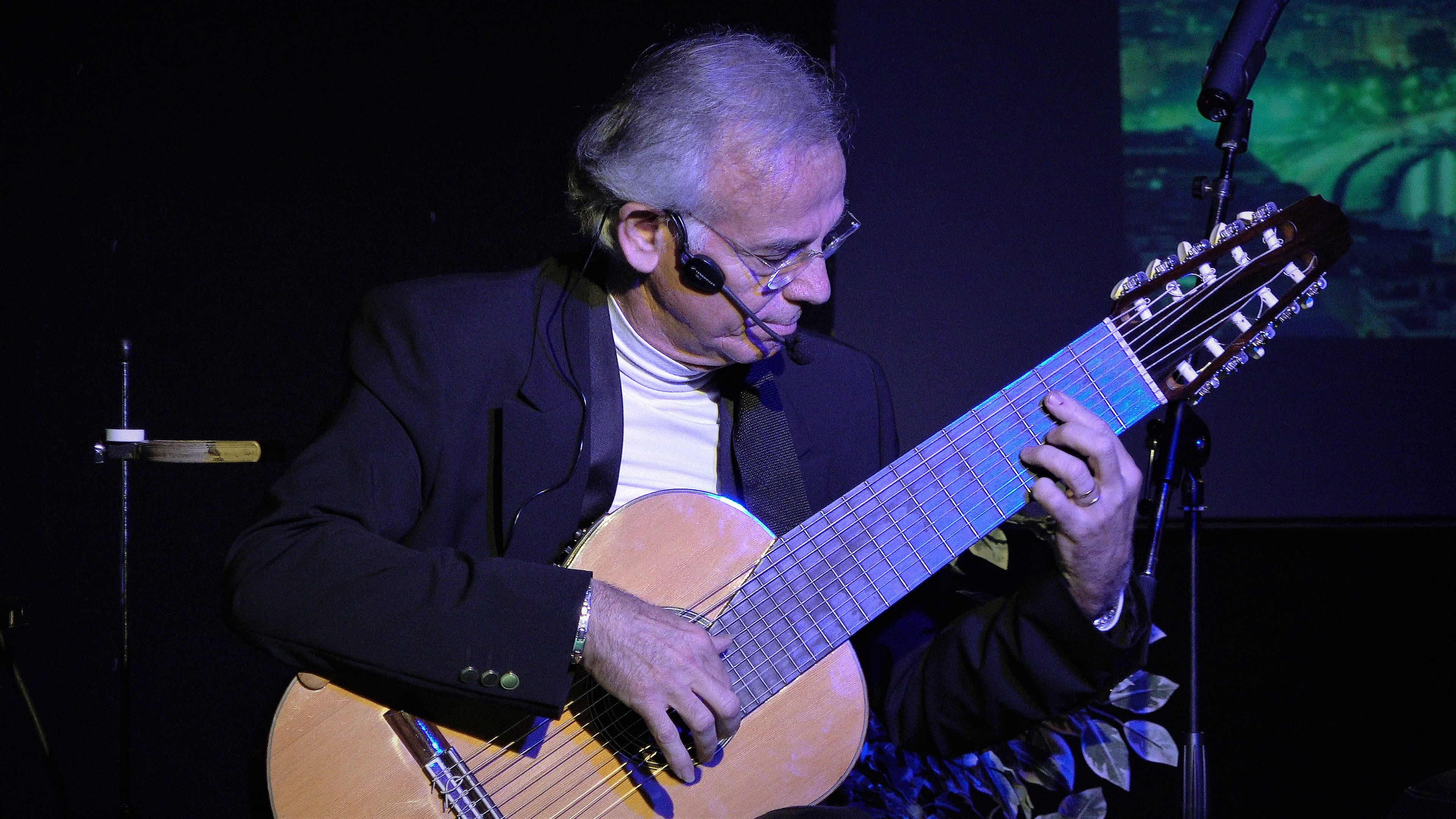 Paolo Gatti during concert at Teatro Petrolini in Rome